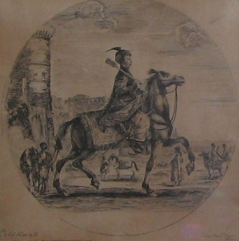 Stefano Della Bella, Cavaliere polacco con la mazza, 1651